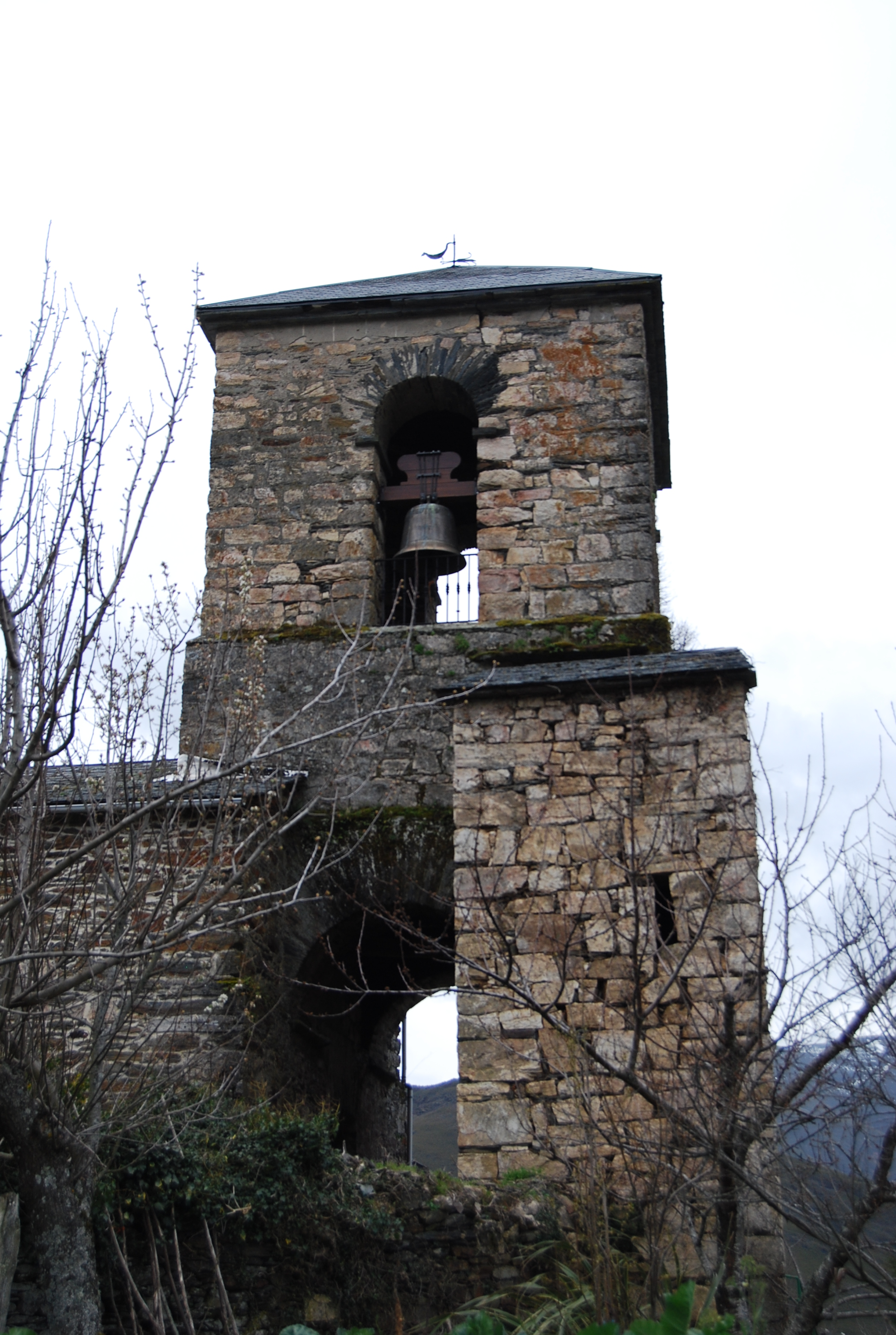 Oencia (León, Spain). Church